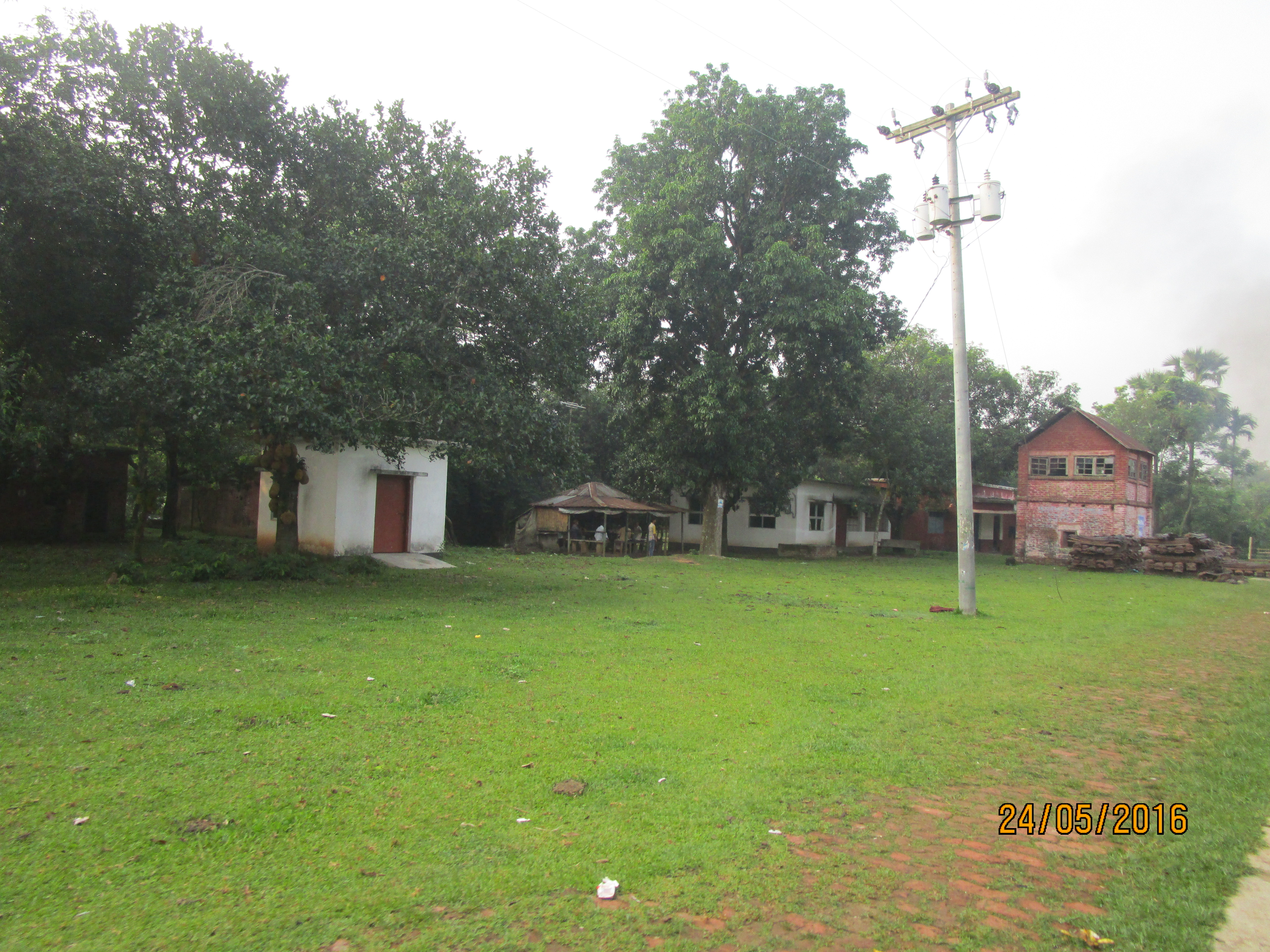 Bhawal Gazipur Railway Station